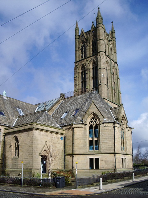 The former St Marks Church, Preston It has been been converted into a pleasant block of apartments